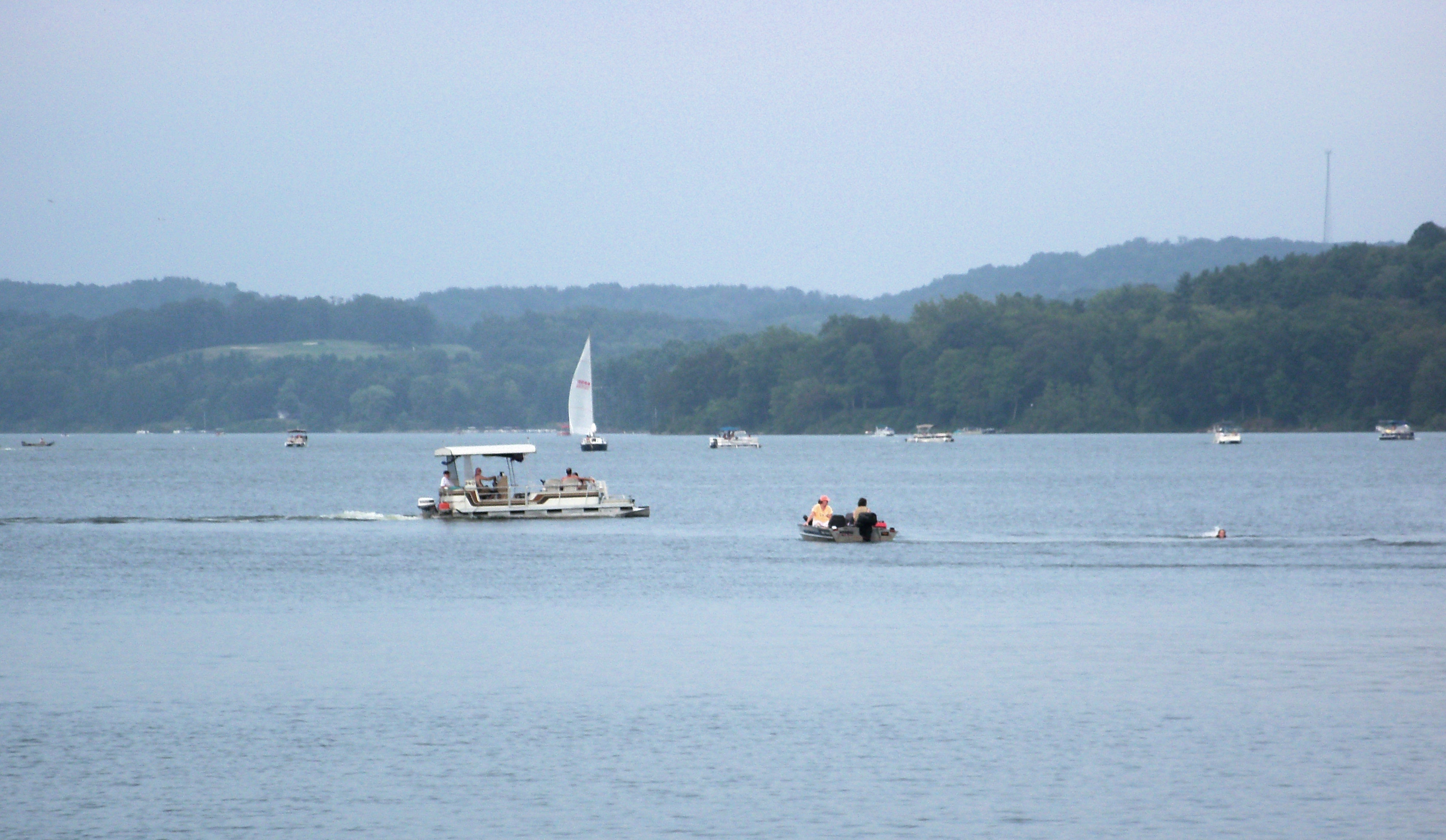 A view of Atwood Lake in Ohio.